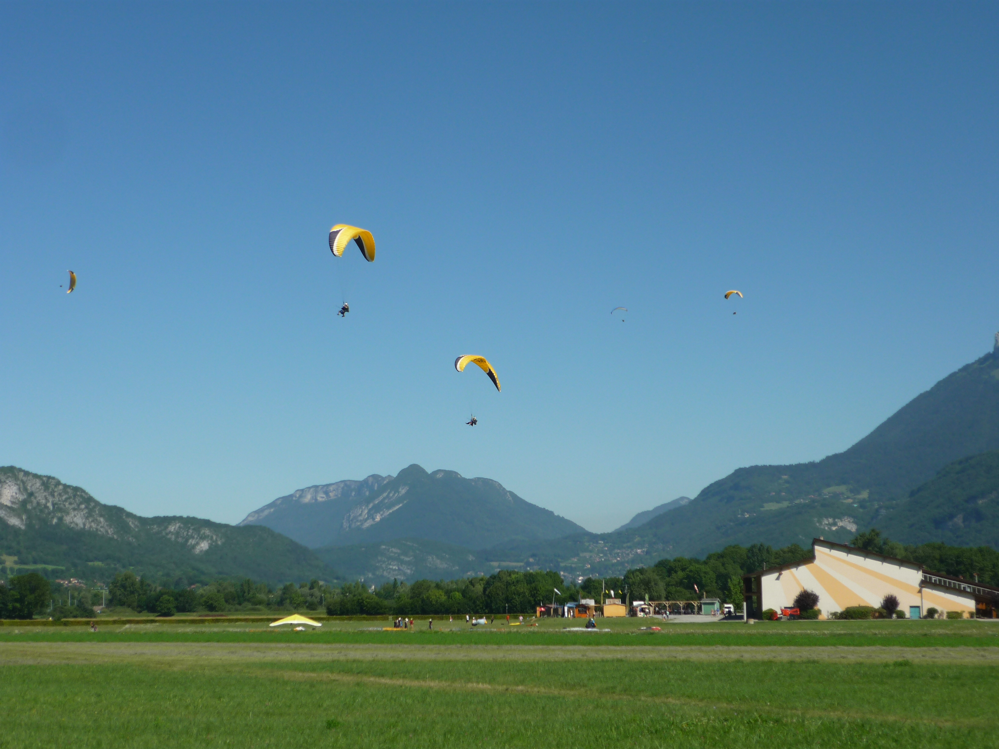 Doussard, Haute-Savoie, France